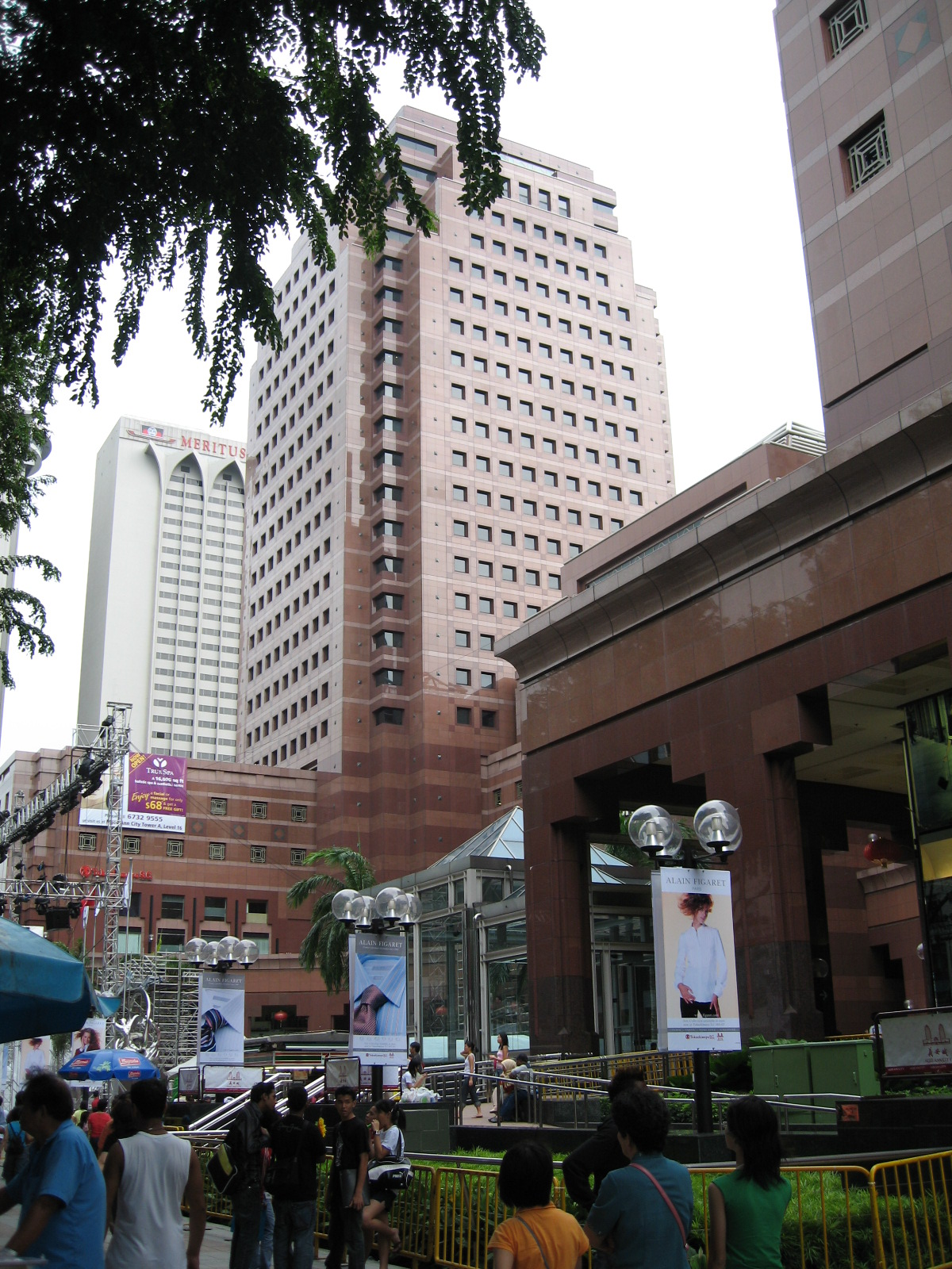 Ngee Ann City Tower A.